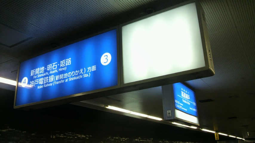 Kosoku-kobe stn. sign